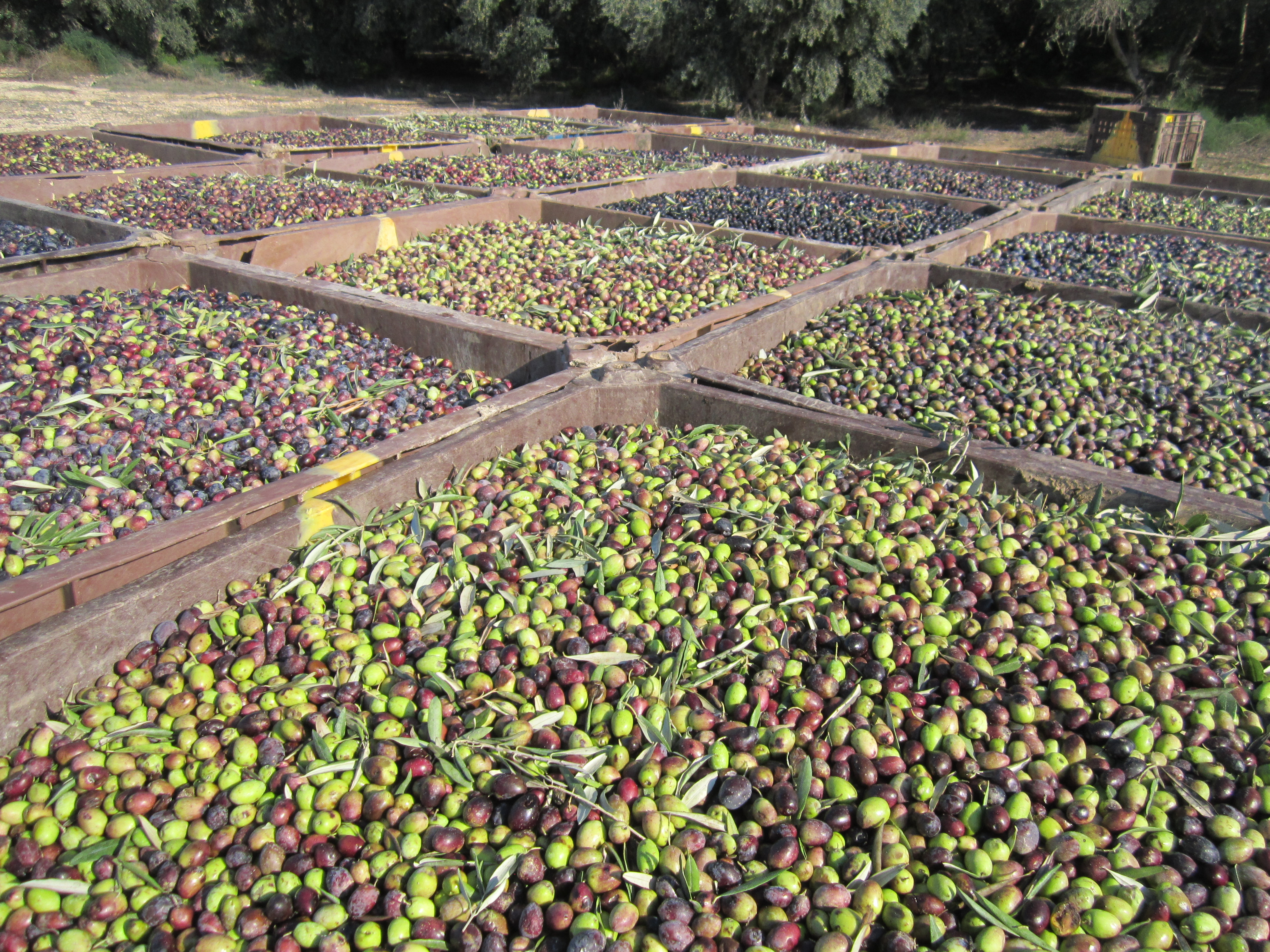 Olives in containers after harvet